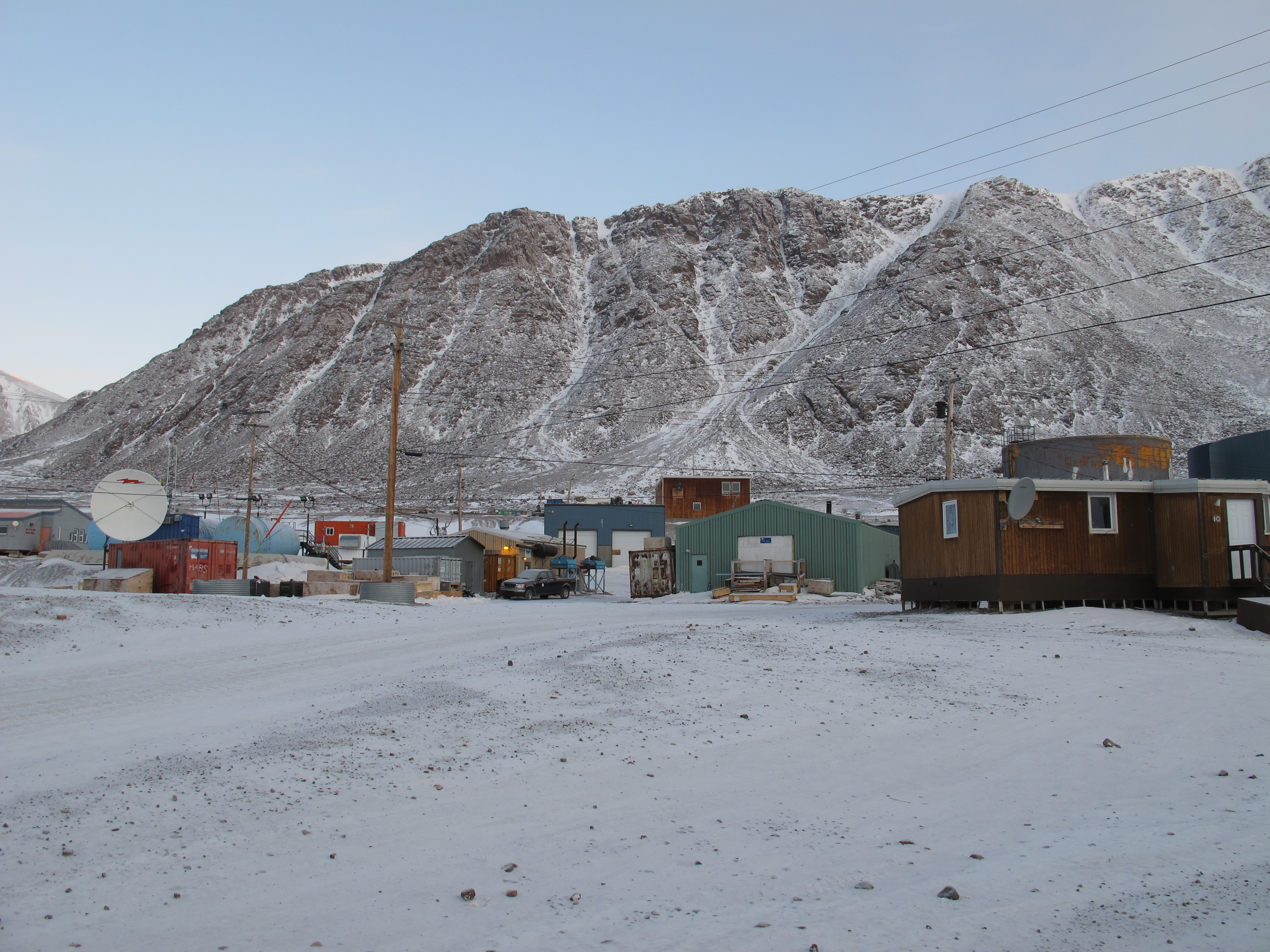 another shot of the community